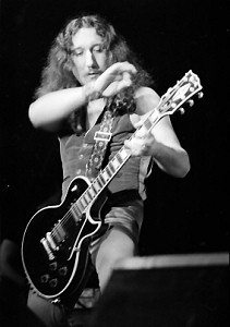 Mick Box, Uriah Heep, Chateau Neuf, Oslo